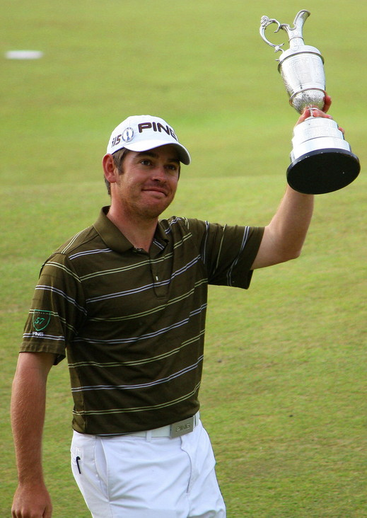 South African golfer Louis Oosthuizen following victory at the 2010 British Open at St. Andrews